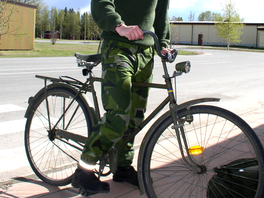 A crop of File:Swedisharmybicycle.jpg by User:Johan Elisson, highlighting the Roadster bicycle. (A Swedish military bicycle of unknown model. Picture taken in 2004 at Norrbottens regemente, Boden.)